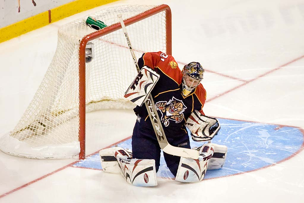 Craig Anderson making a save, Pittsburgh Penguins vs. Florida Panthers